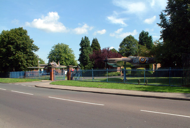 A Hurricane and a Spitfire stand watch over the entrance to the chapel of the former RAF Biggin Hill. For more information see the Wikipedia article London Biggin Hill Airport.